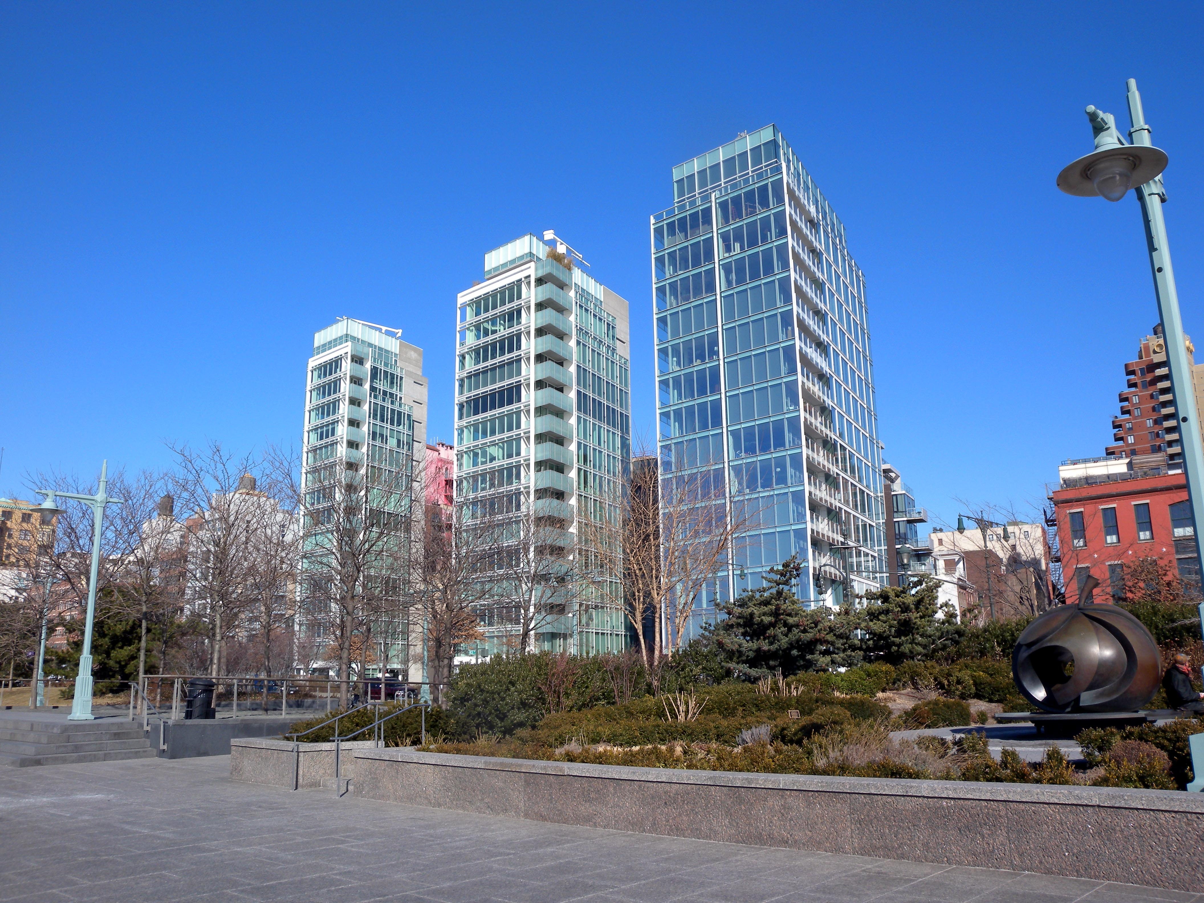 Looking northeast at 165 Charles Street and its neighbors 173 and 176 Perry Street on a sunny afternoon with my GPS finally working. The three Perry Street apartment buildings by Richard Meier